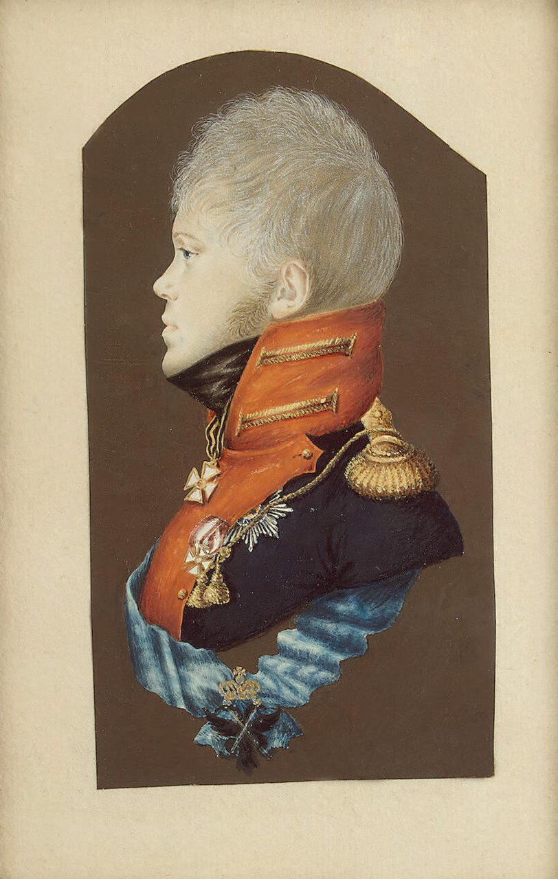 Portrait of Grand Duke Constantine Pavlovich of Russia from the Hermitage Museum (1809)